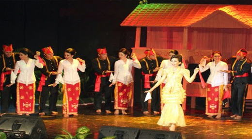 Maengket traditional dance from the Minahasa region of North Sulawesi, Indonesia.